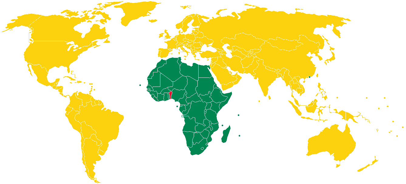 Visa policy of Benin Benin Visa free Visa on arrival